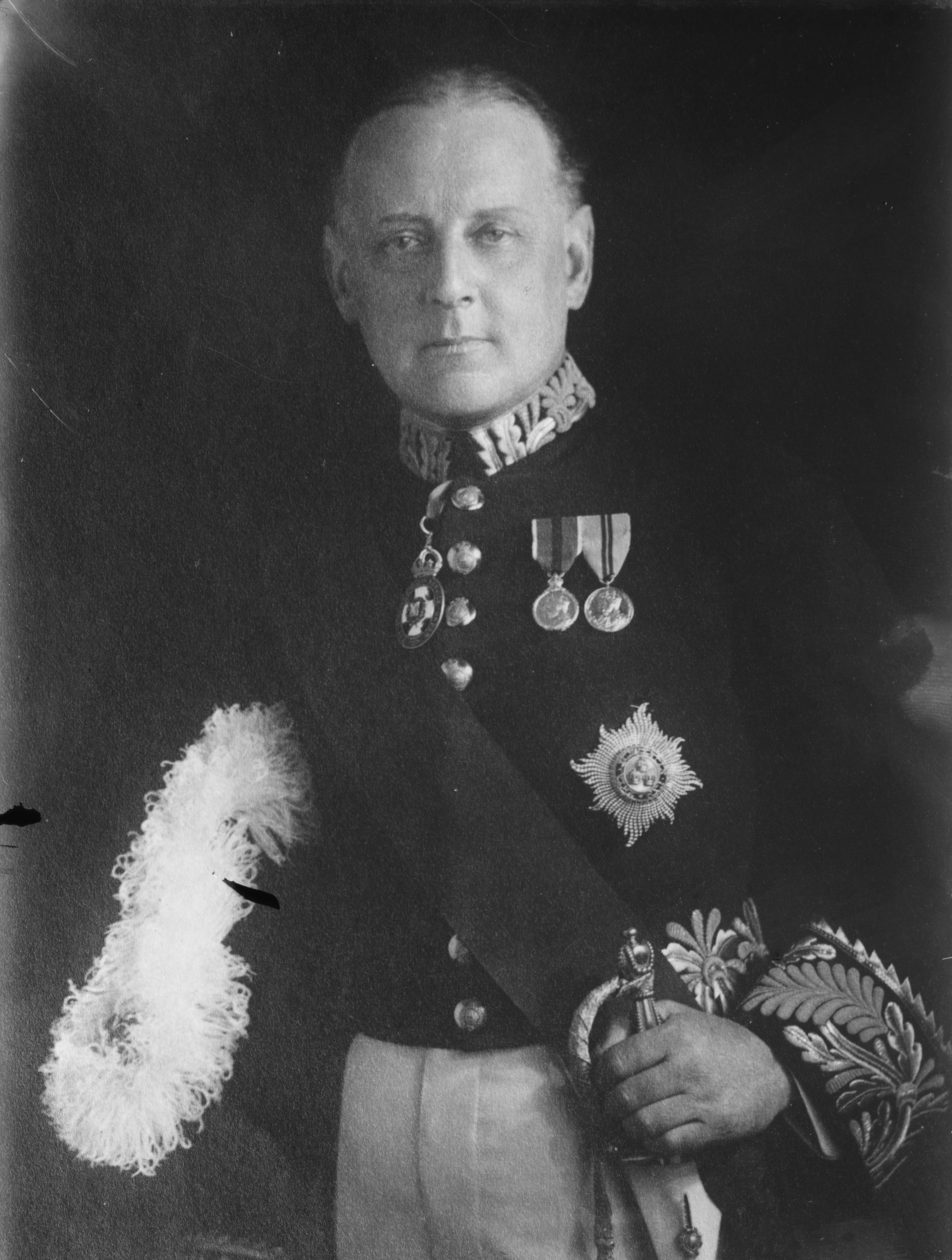 Title: Sir Reginald H. Brade Abstract/medium: 1 negative : glass ; 5 x 7 in. or smaller.